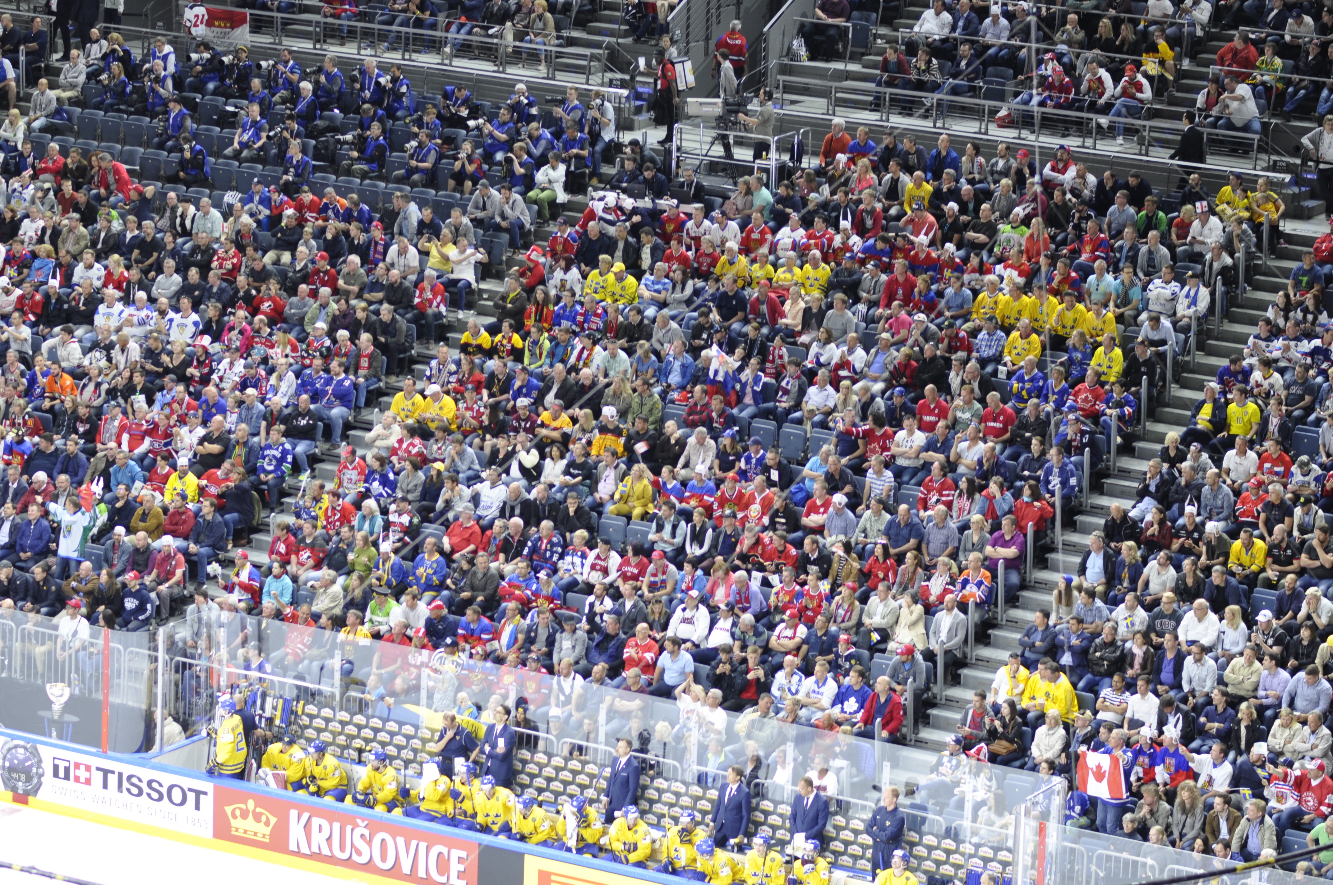 Ice hockey World Championship 2017 in Cologne 19.5 - 22.5.2017 Foto Mats Adamczak